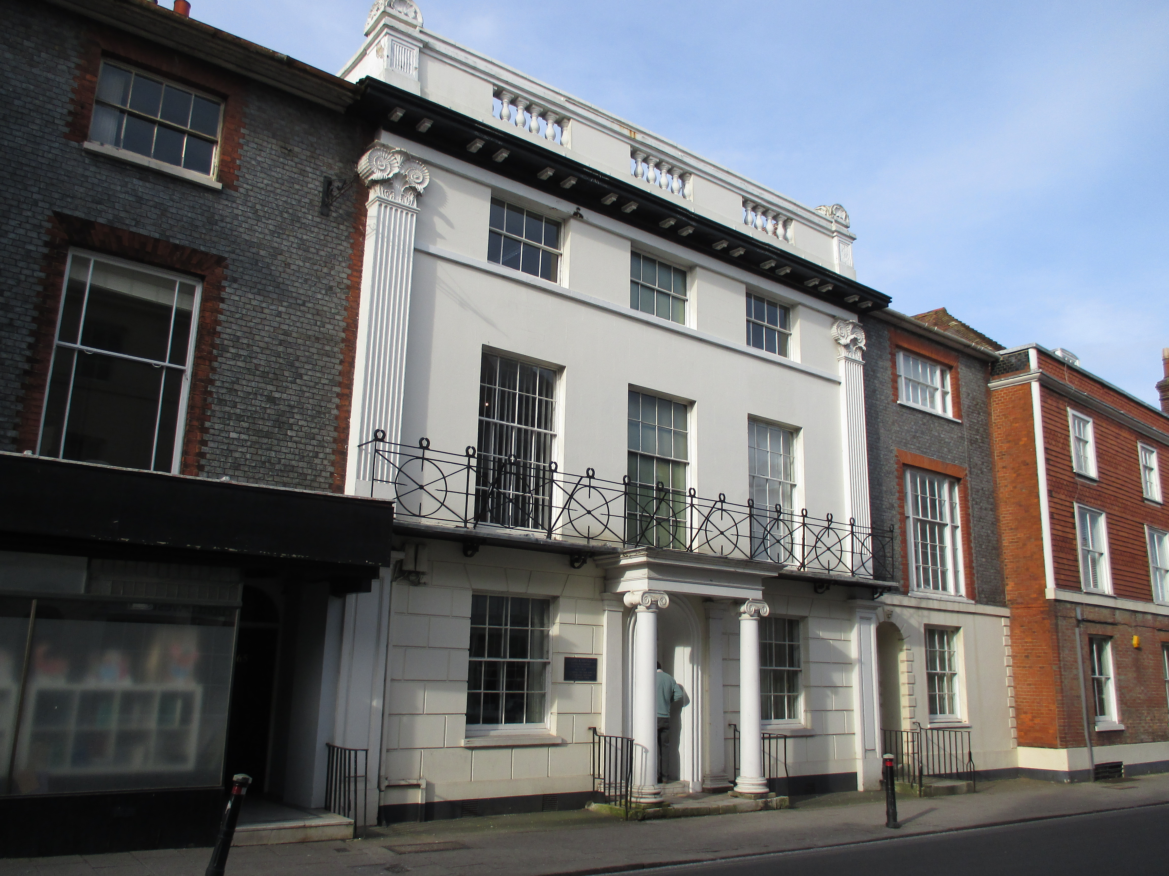 166 High Street, Lewes, East Sussex, once the home of Gideon Mantell according to a plaque on the building, seen from the south.